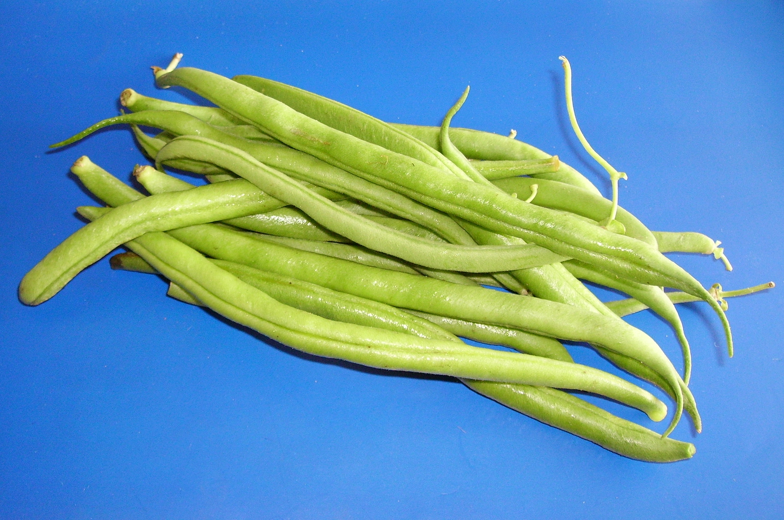 Green beans